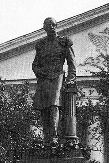 Monument to Duke Peter of Oldenburg in Saint Petersburg. Sculptor Ivan Schröder/ Памятник принцу Ольденбургскому перед основанной им больницей